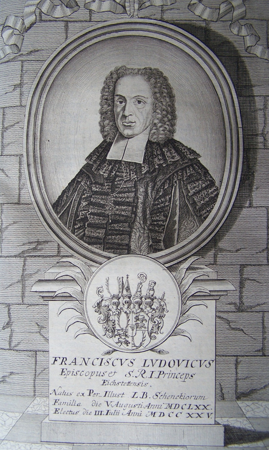 Franz Ludwig Schenk von Castell (1671–1736), Bishop of Eichstätt